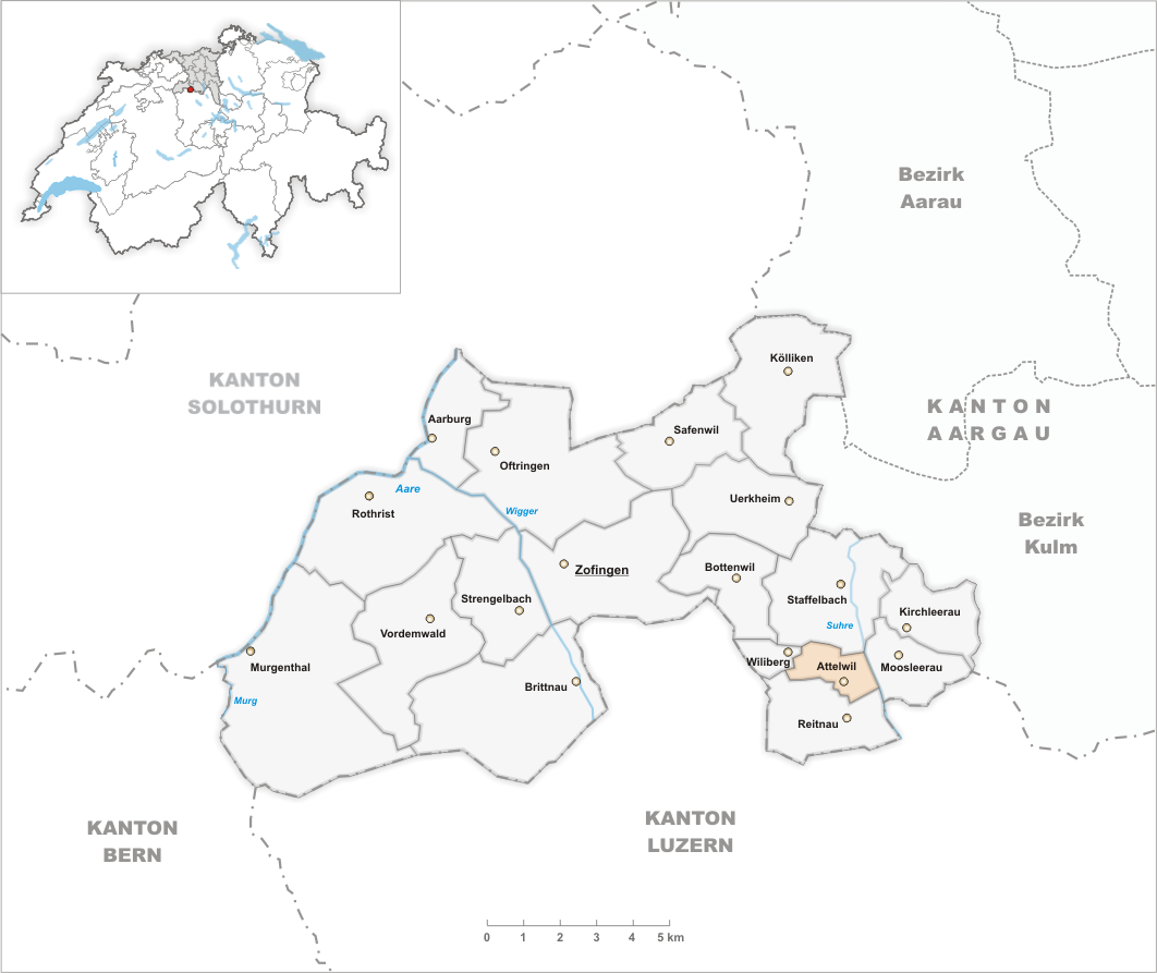 Municipality Attelwil